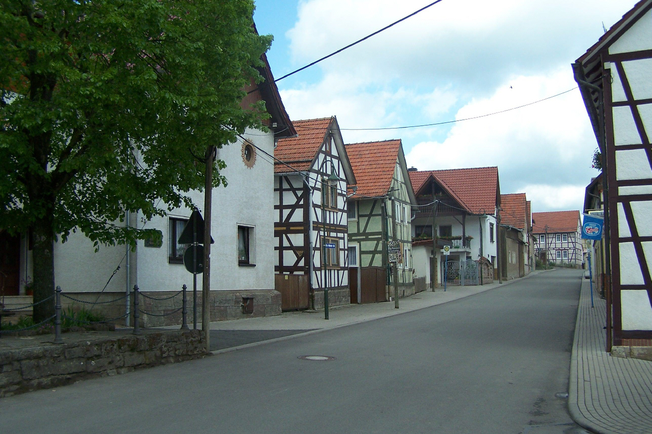 In Hallungen village, Thomas-Müntzer-Straße.